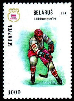 Stamp of Belarus